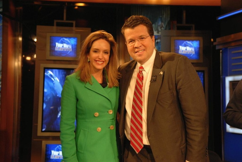 Jeri Thompson with Neil Cavuto on the set of the Fox News program "Your World With Neil Cavuto"